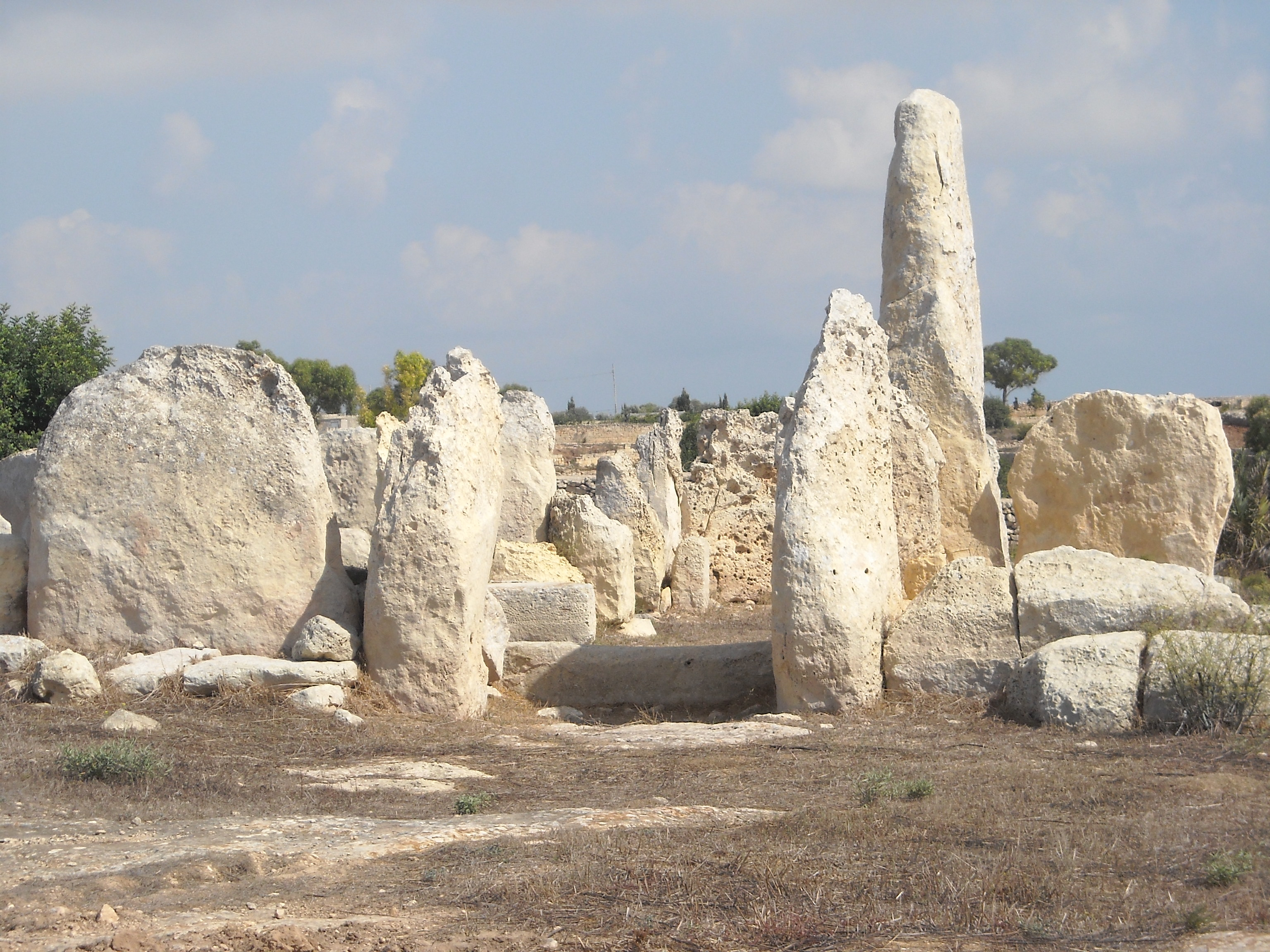 Hagar Qim, Malta, northern temple